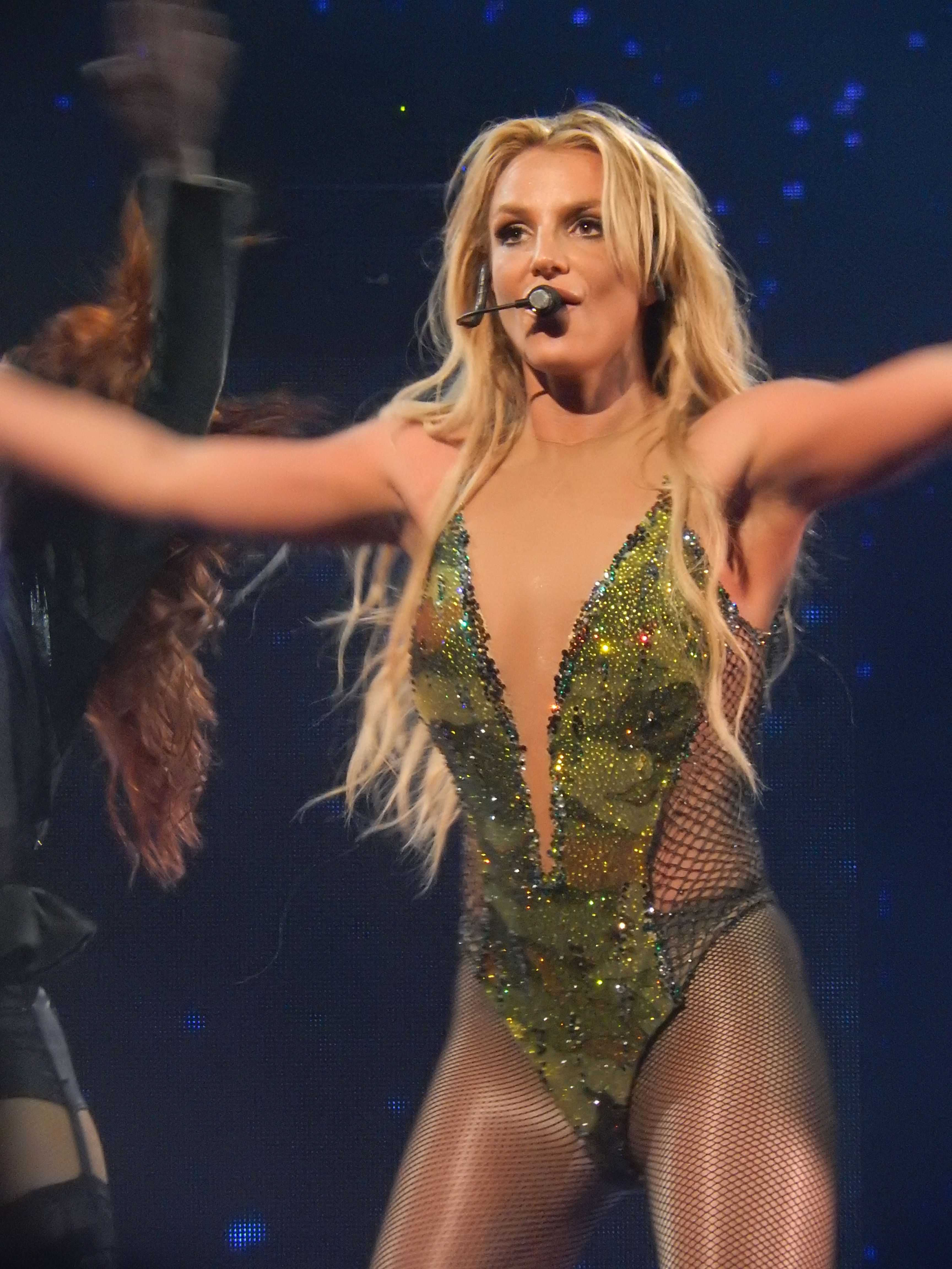 Britney Spears, Roundhouse, London (Apple Music Festival 2016)